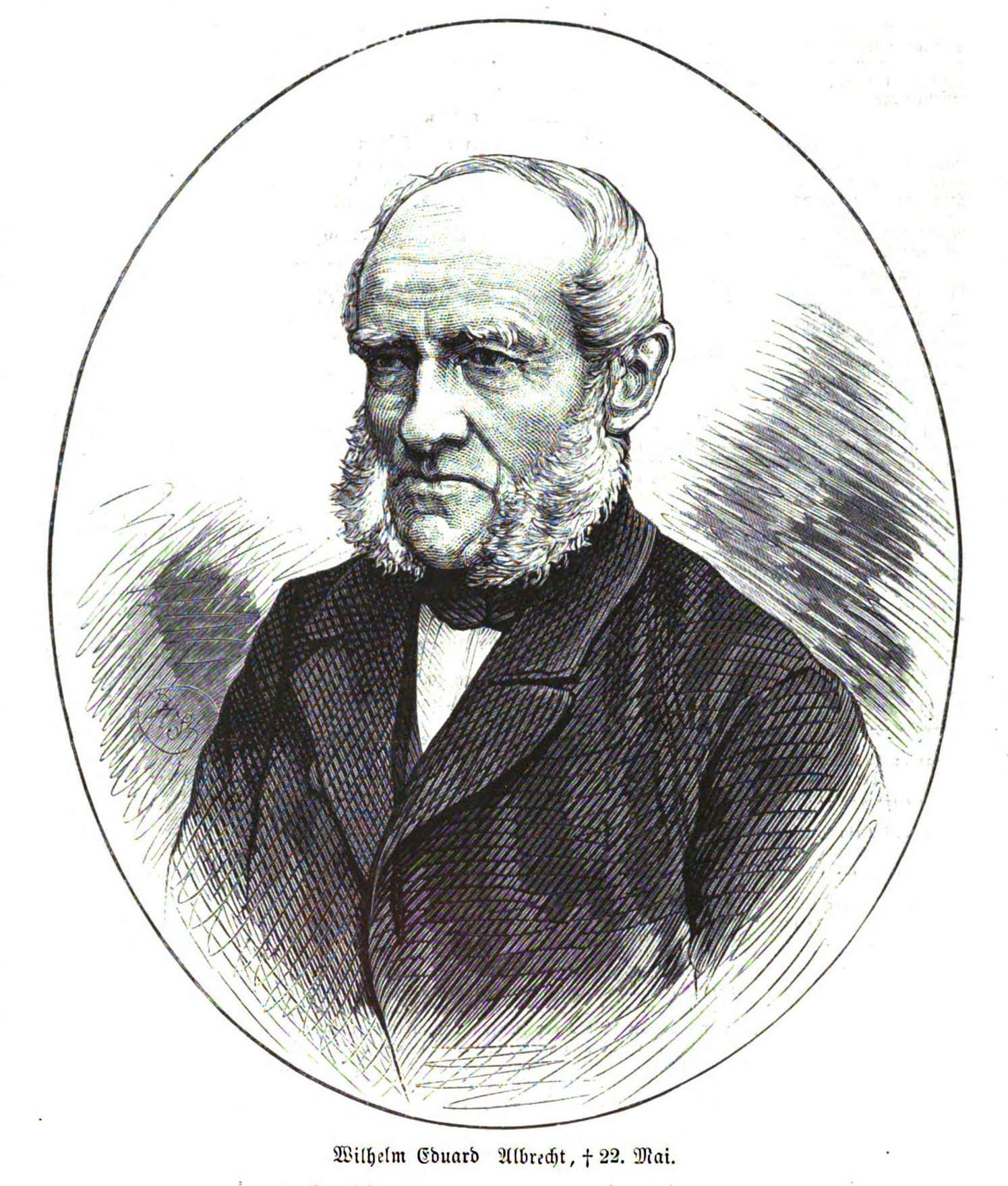 portrait Wilhelm Eduard Albrecht